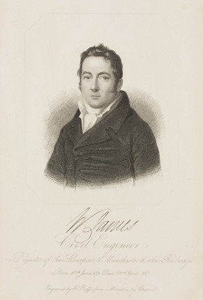 William James, land agent and railway promoter, c. 1800. Engraving by W. Roffe (active 1889-1893).